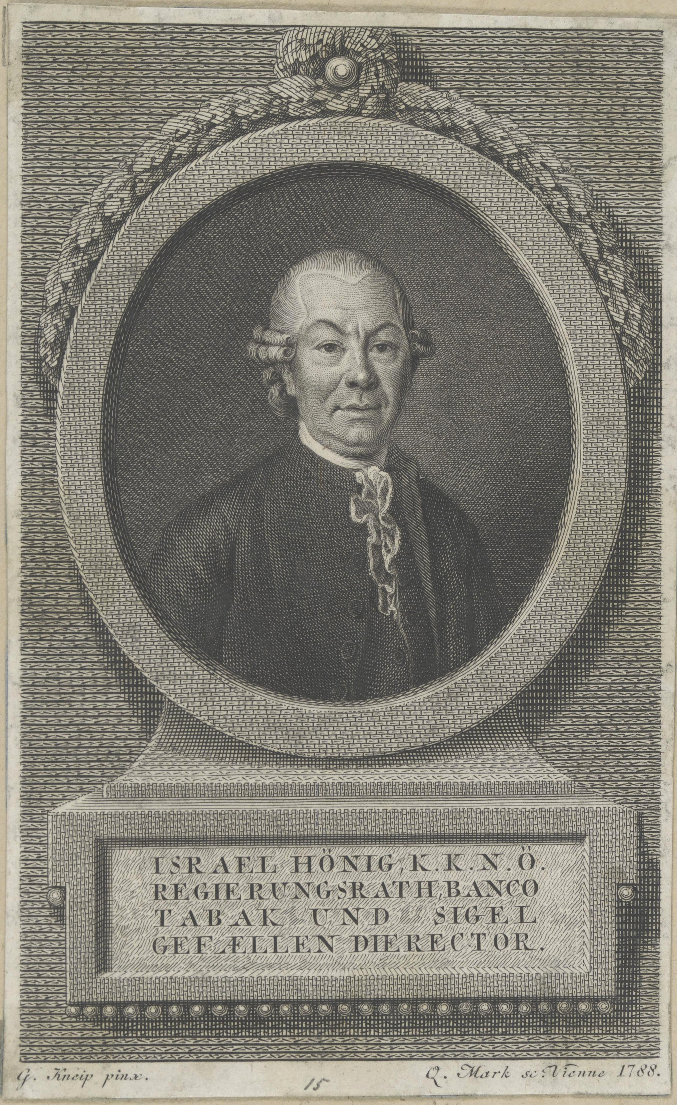 Portrait of Israel Hönig von Hönigsberg (1724, Chodová Planá–1808, Vienna). In 1789, Hönig was ennobled by Emperor Joseph II with the title Edler von Hönigsberg.